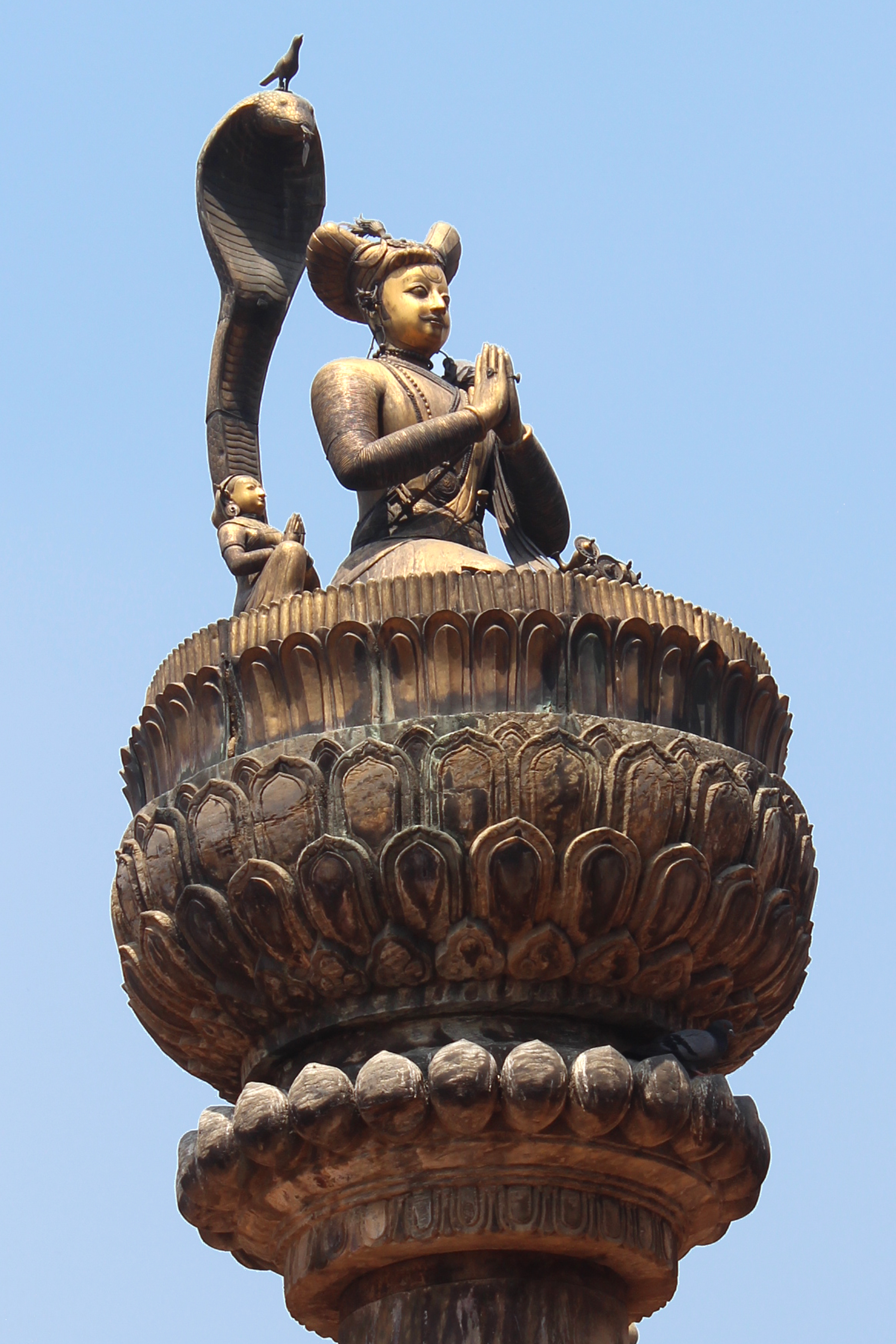 Statue of Yogendra Malla, at the Durbar Square, in Patan (Lalitpur), Nepal